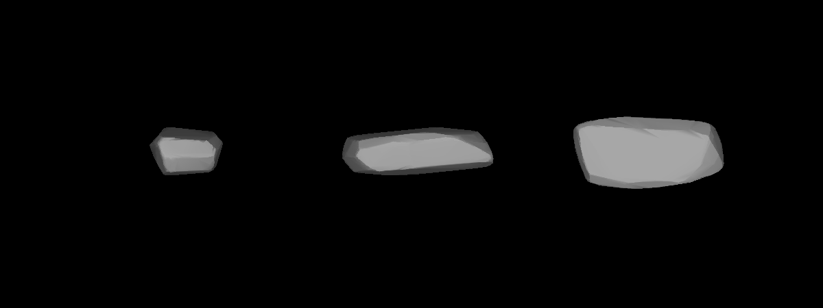 A three-dimensional model of 2156 Kate that was computed using light curve inversion techniques.